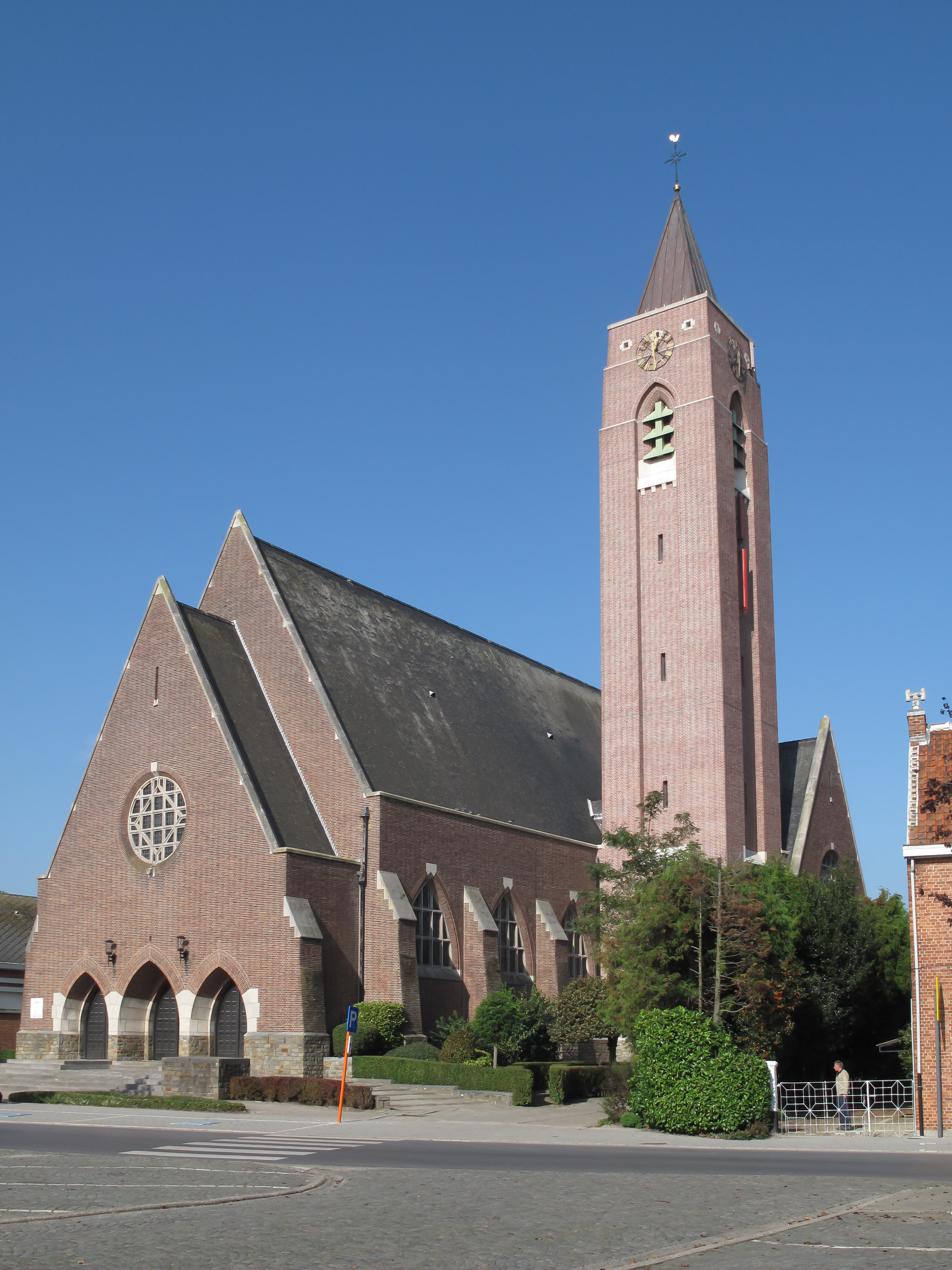 Lokeren, church